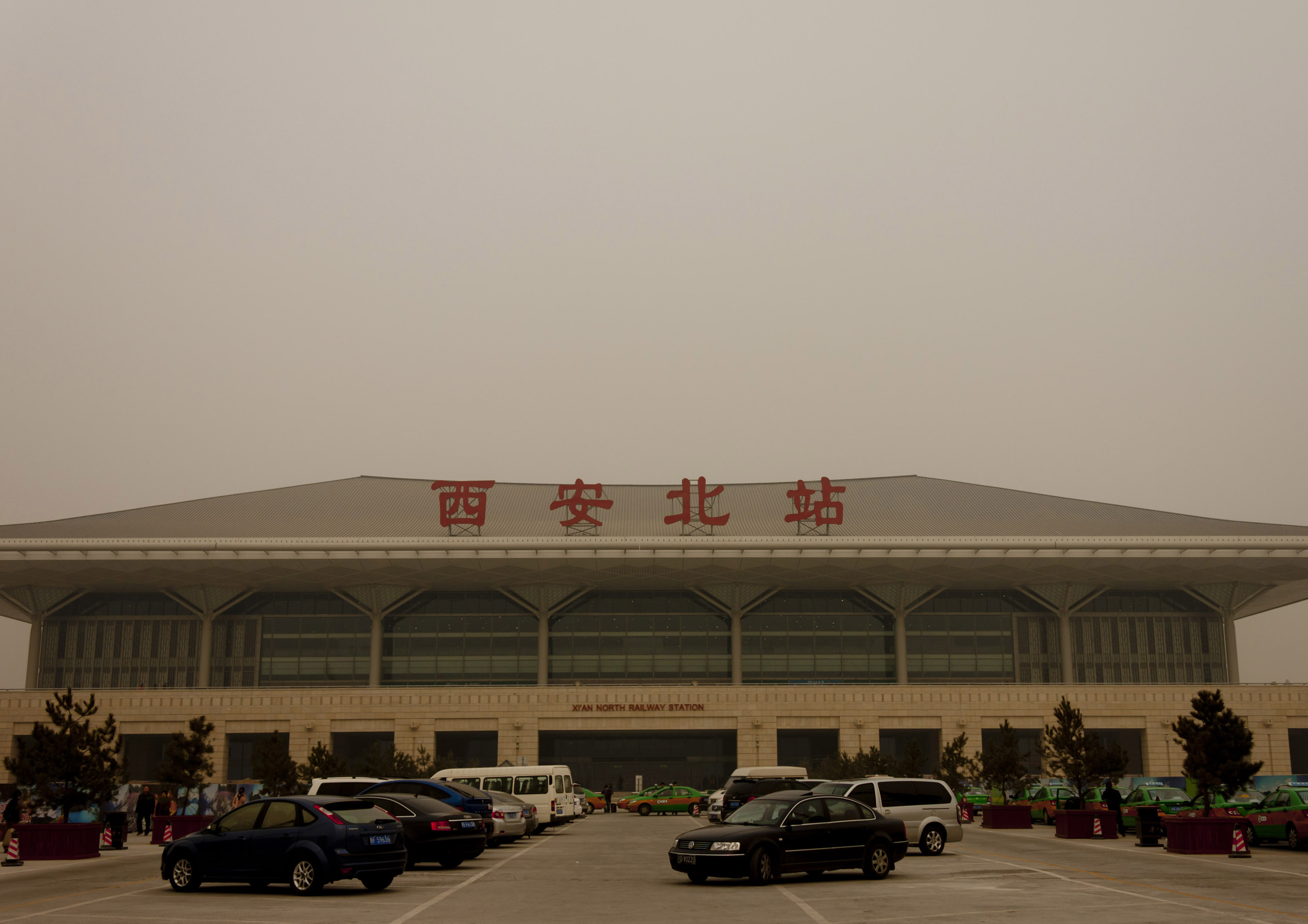 Xi'an North Railway Station